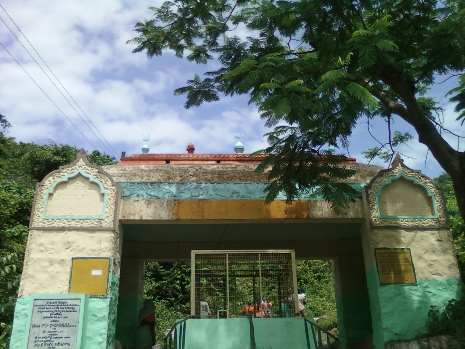 Entrance arch of Punyagiri temple near Srungavarapukota, Vizianagaram district